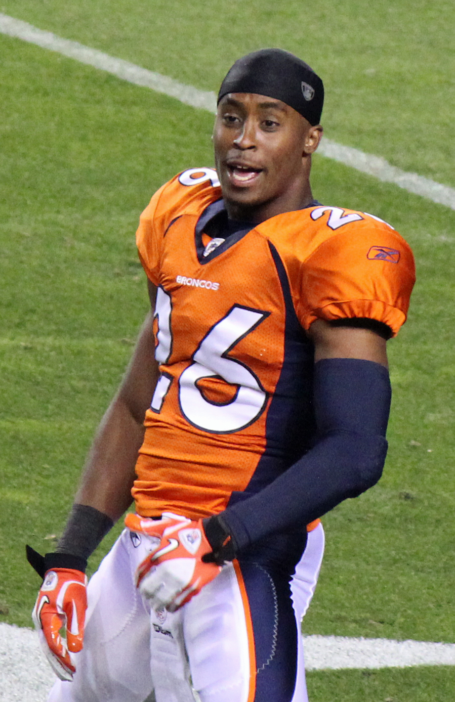 Rahim Moore, a National Football League player.